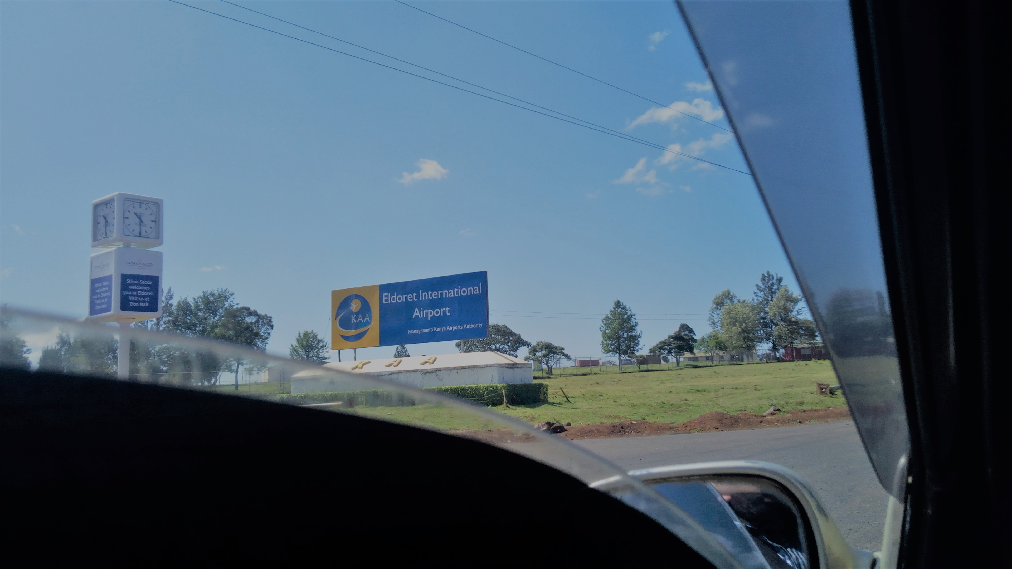 Sign near the gate to Eldoret Internationa Airport along the Eldoret-Kisumu road